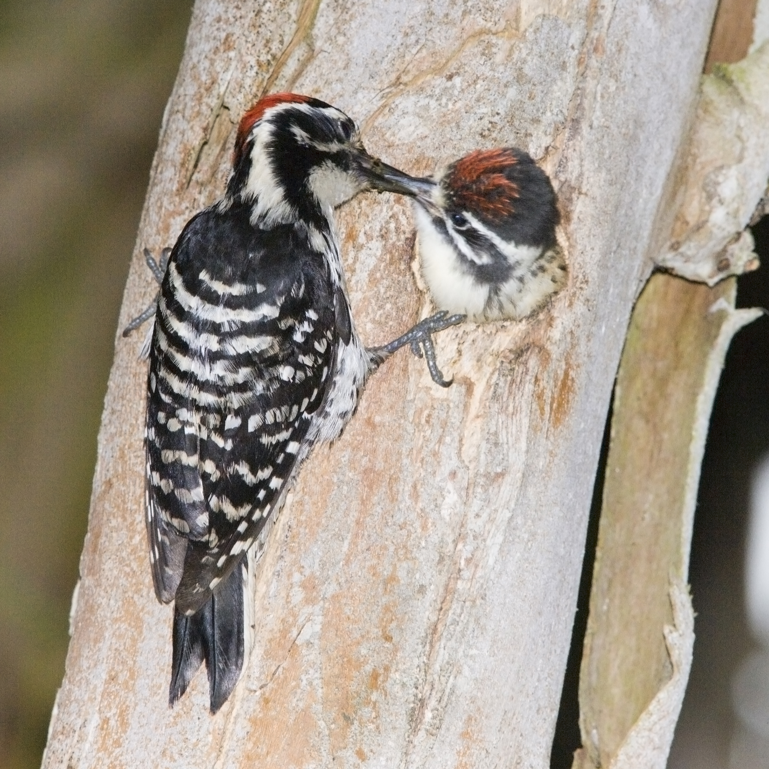 Nuttall's Woodpecker Dryobates nuttallii in the Morro Bay "Heron Rookery" in Morro Bay, California.